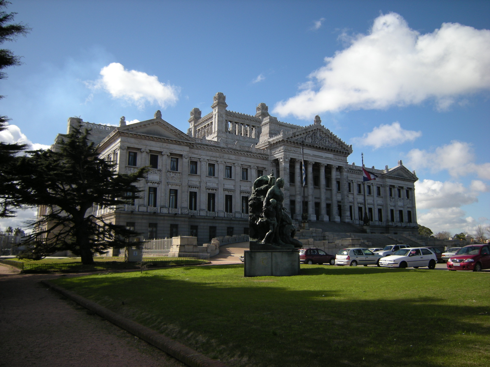 The Legislative Palace of Uruguay, designed by Italian architects Vittorio Meano and Gaetano Moretti, and inaugurated in 1925.